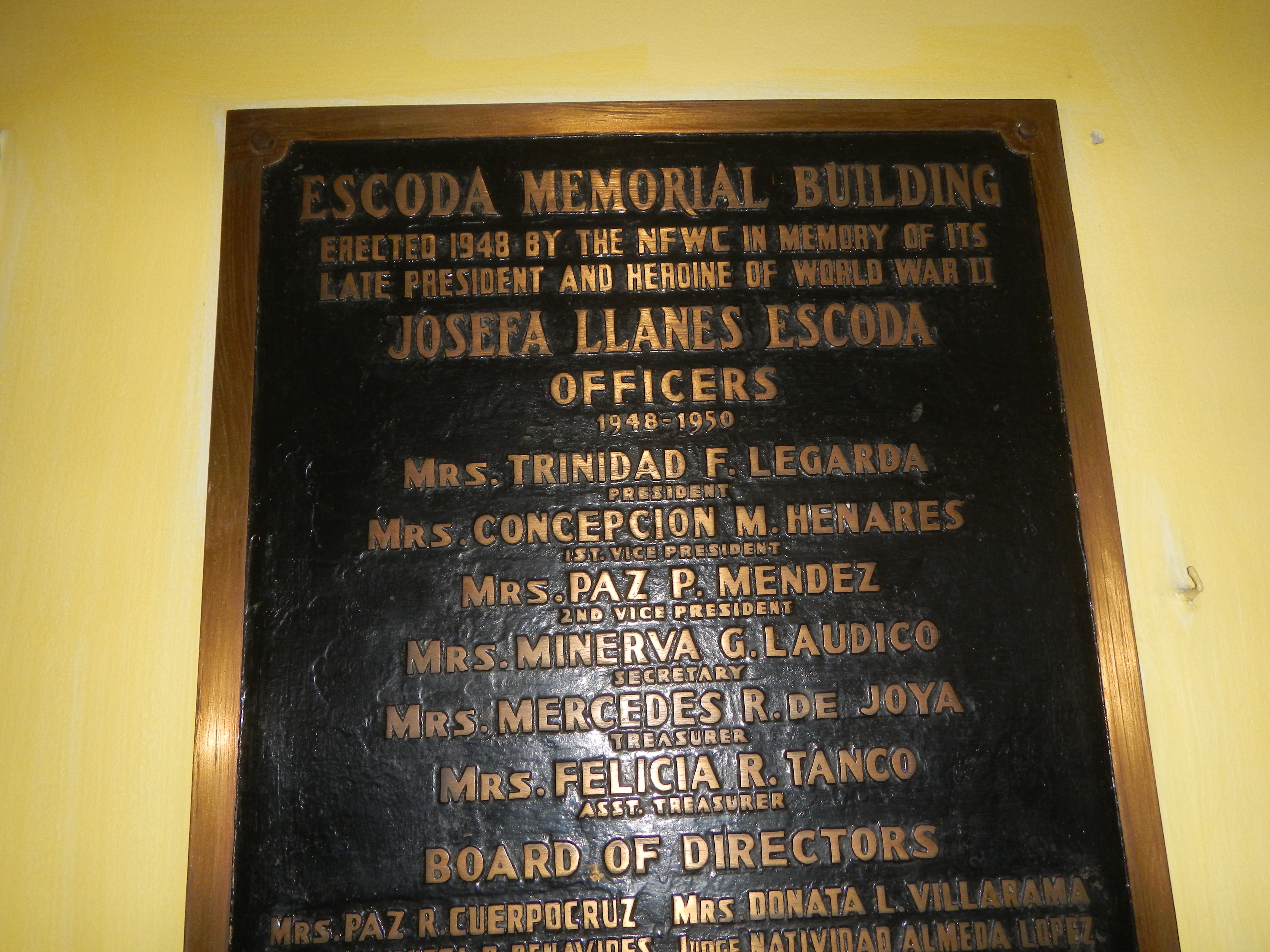 Escoda Street, National Federation of Women's Clubs of the Philippines (1948 Josefa LLanes Escoda Memorial Building, Malate, Manila) Association Feminista Filipina June 30, 1905 Concepción Felix Concepción Felix Roque (9 February 1884 – 26 January 1967) Josefa Llanes Escoda (Trinidad Legarda from and along List of barangays of Metro Manila Legislative districts of Manila 5th District, Barangays 669, Zone 72, 675, 676, Zone 73, 686, 687, 688, 694, 695, Zone 75, District V, Malate, Manila, Ermita, Manila, Paco, Manila, City of Manila).